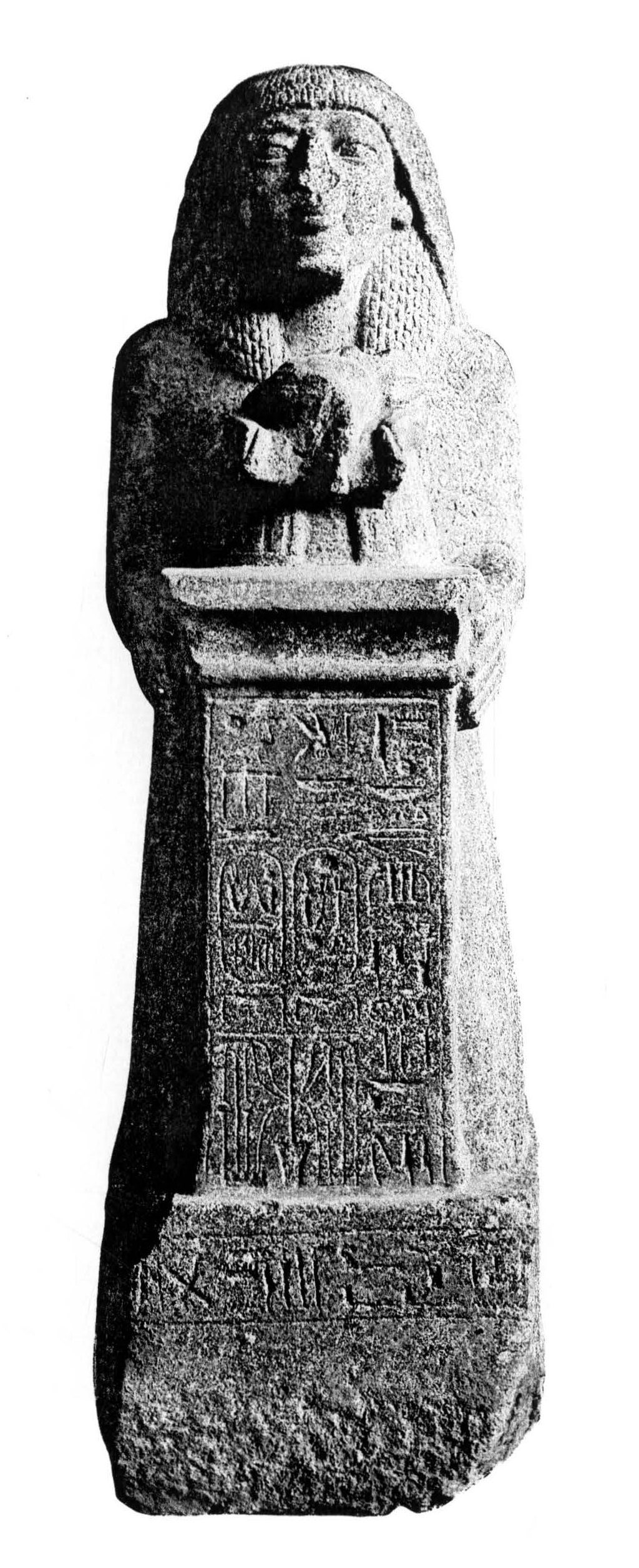 Kneeling statue of the vizier Paser, who served under Seti I and Ramesses II. From Karnak, great temple cachette. Reign of Ramesses II, 19th dynasty, New Kingdom. Cairo, Egyptian Museum CG 42156 (JE 37388).